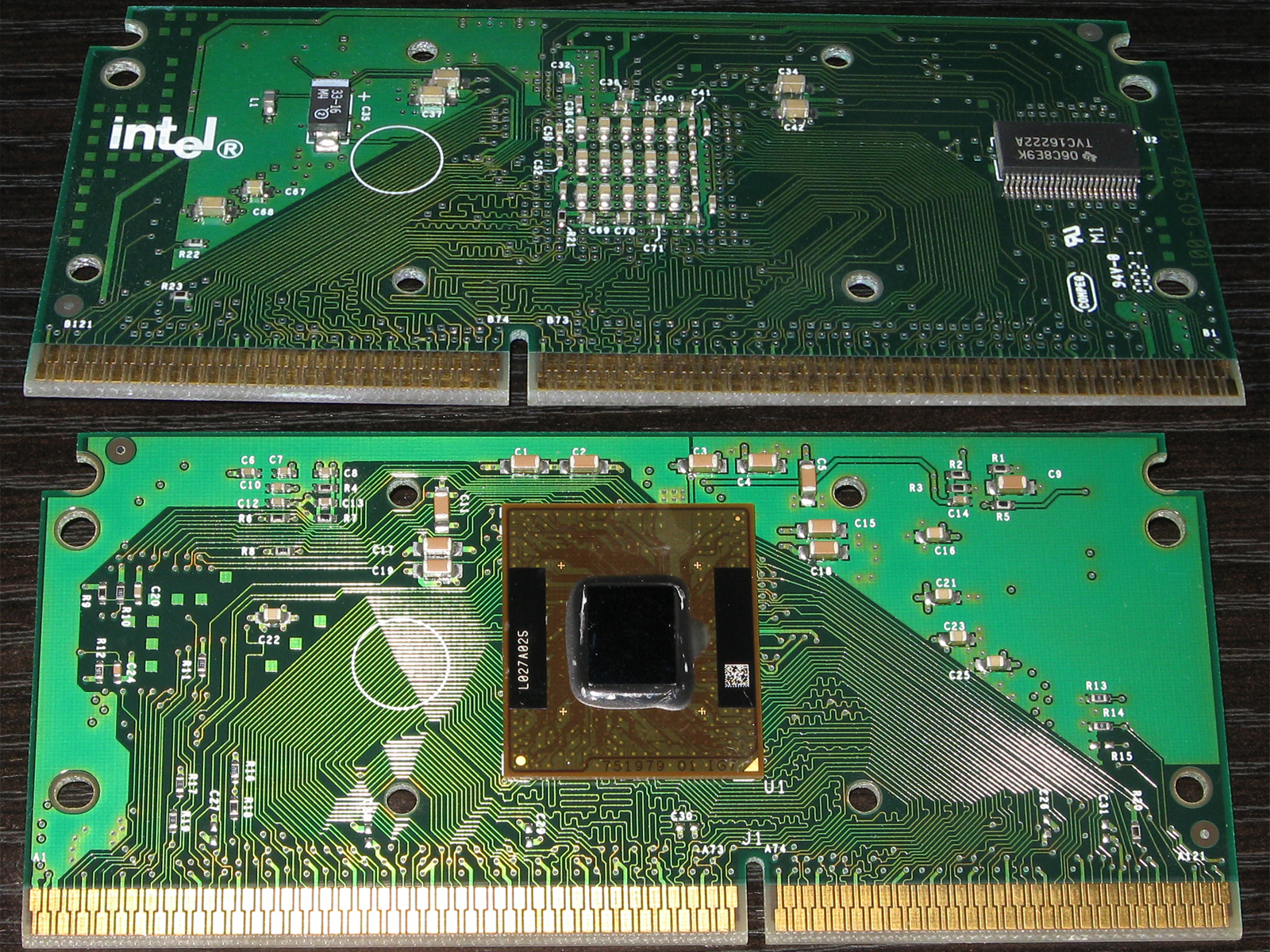 Pentium III (Coppermine B0 core, SECC2 package) w/o cartridge